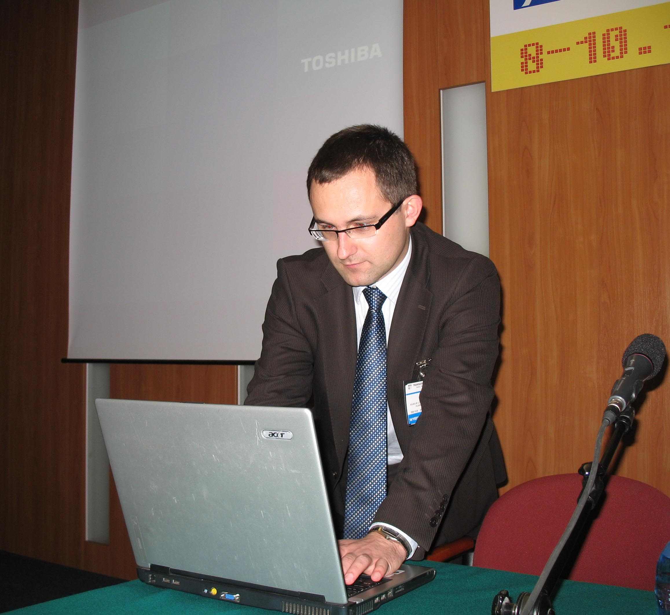 Jakub Śliżak in Kielce, Poland. Transexpo 2008.